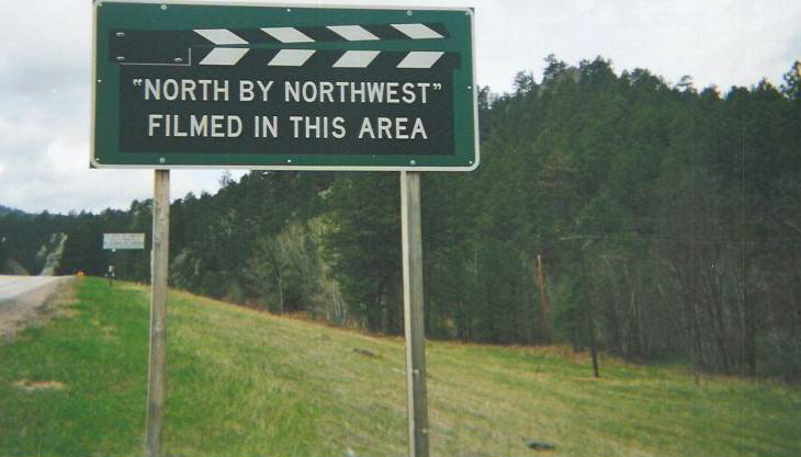 Sign near Mt. Rushmore, South Dakota, informing travelers that the Alfred Hithcock film "North by Northwest" was partially filmed in the area